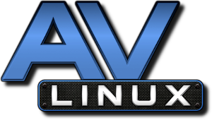 Av Linux logo